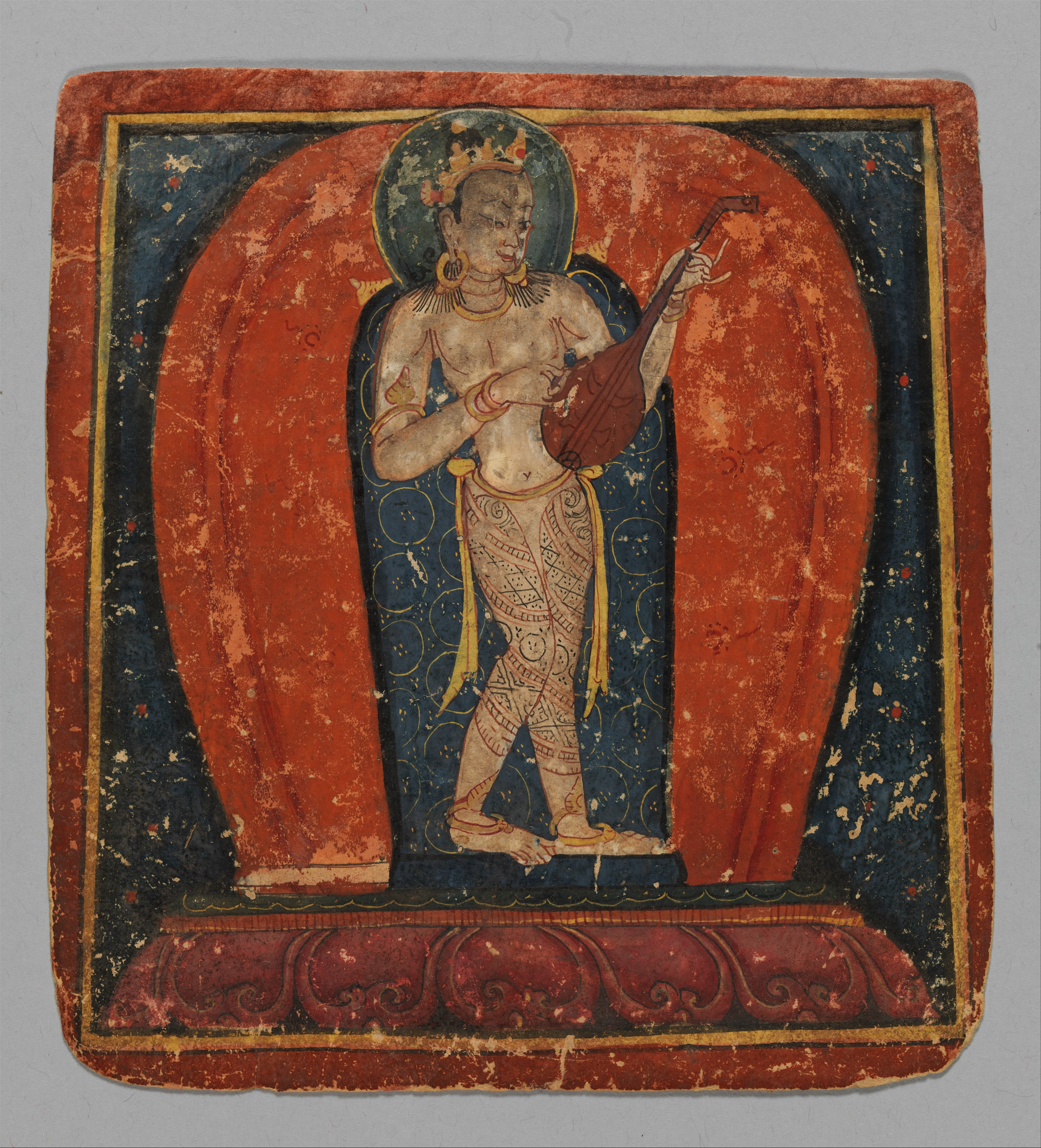 Tsakalis, initiation card, Tibet. Opaque watercolor on paper, 6 1/4 x 5 3/4 in. (16 x 14.5 cm).